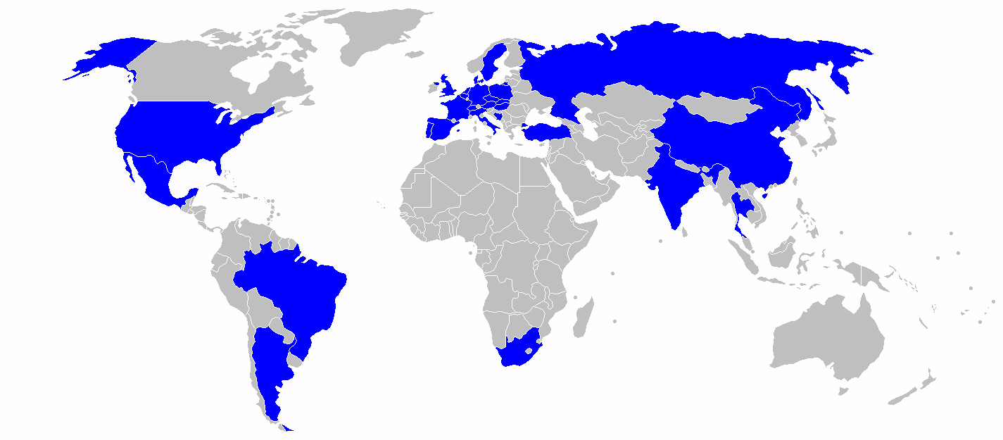 World locations of Volkswagen Group factories: cars, trucks, buses, motorcycles, machine parts and components.